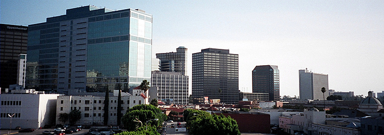 Skyline of Westwood. The perspective here is facing south.